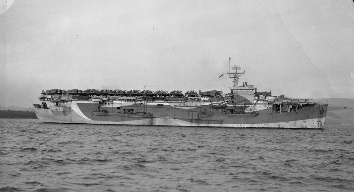 The new, American built, escort carrier HMS AMEER at anchor at Greenock, showing the flight deck crowded with aircraft.